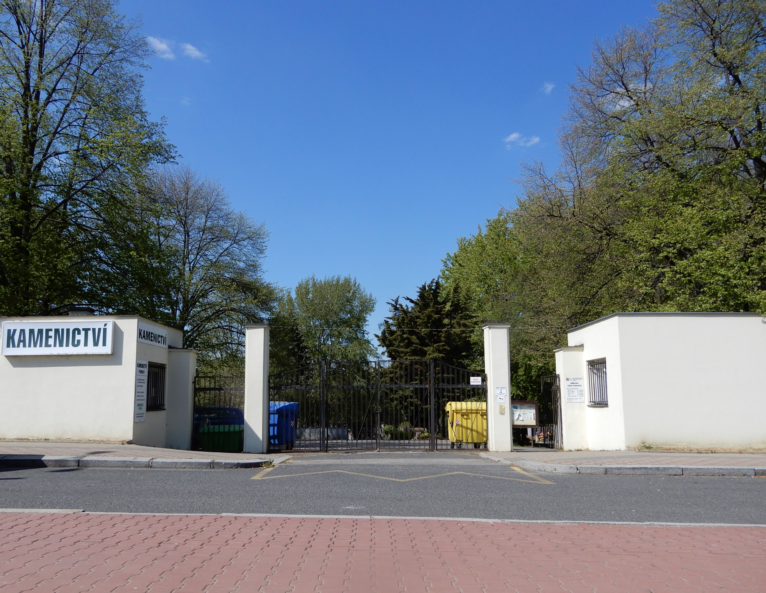 Cemetery in Prague 6 Vokovice, main entrance